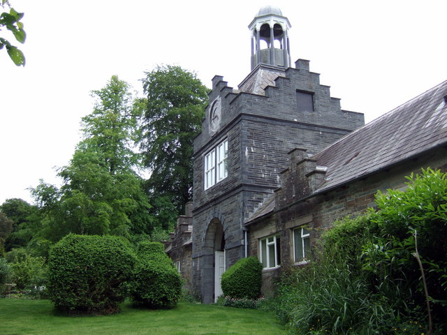 Castell Malgwyn stable block The stable block and service wing of Castell Malgwyn are of a later date than the mansion but both are built with local Teifi valley slate from the quarries nearby. The river runs directly behind this block and would have been used to deliver the building material.